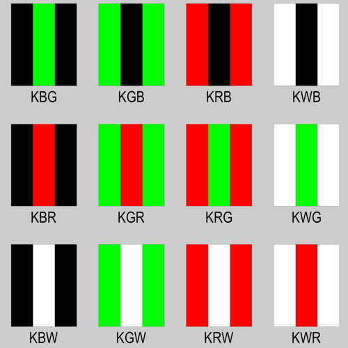 The twelve combinations of colors used on daymarks by the United States Coast Guard, with their designators.